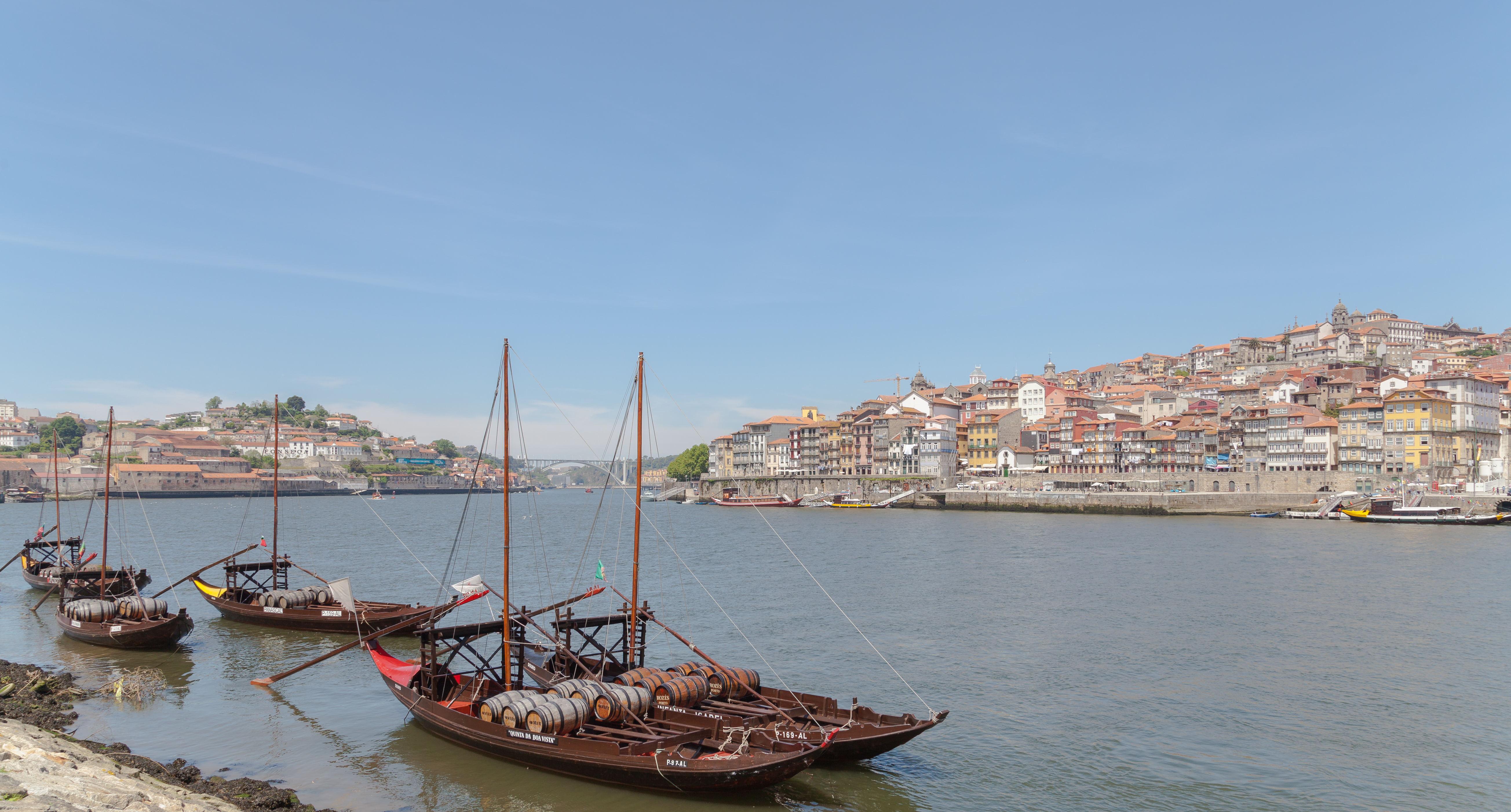 Rabelos in the Duero river, Vila Nova de Gaia, Portugal